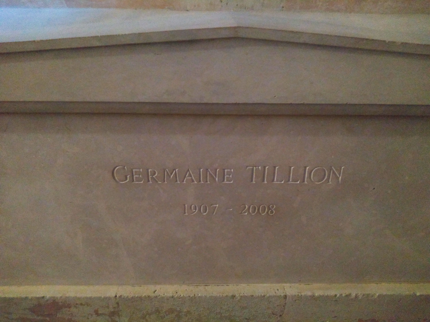 The tomb of Germaine Tillion at the Panthéon in Paris.